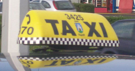 Sign Taxi Zagreb, Croatia